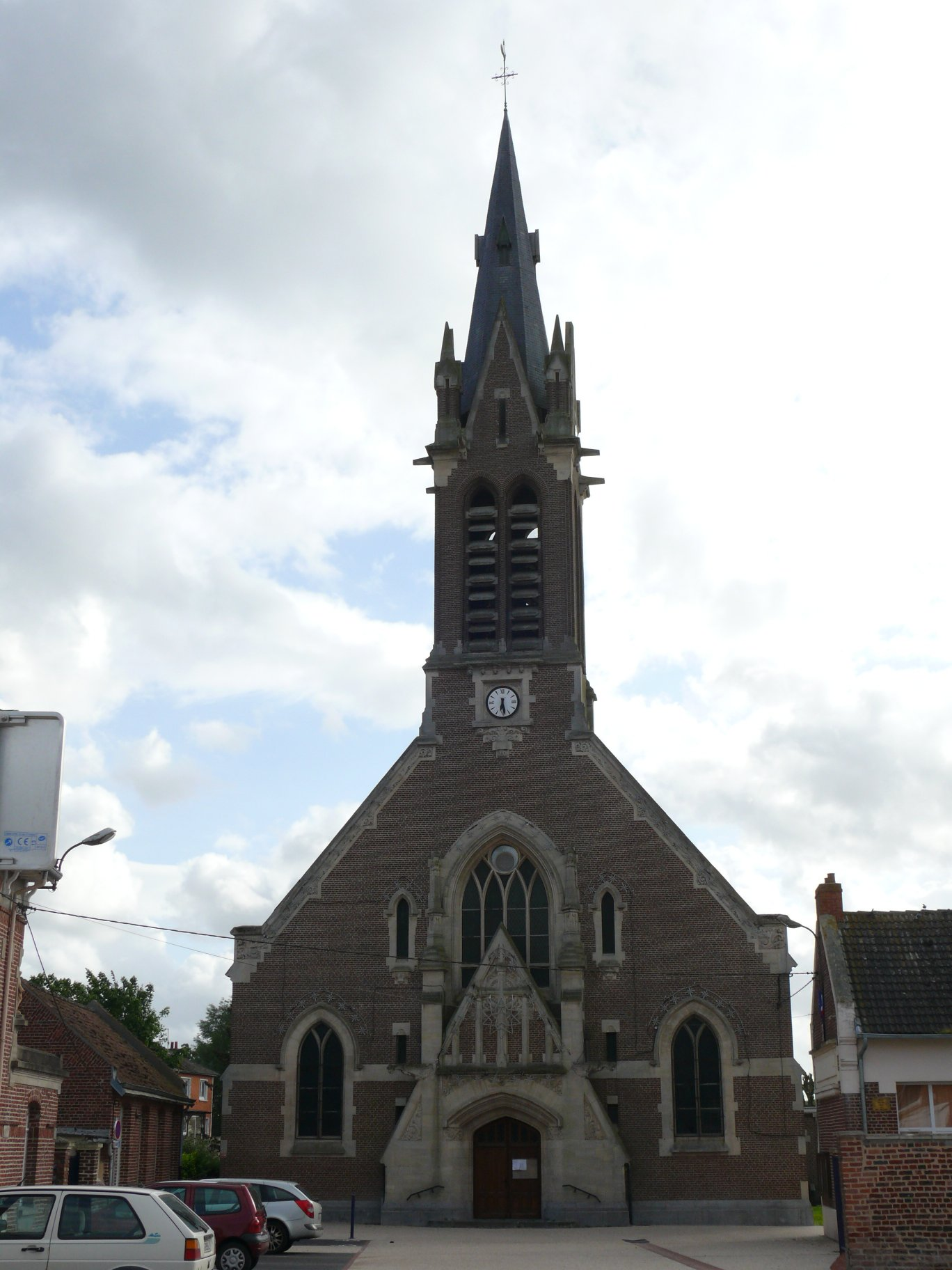 The church of the Immaculate Conception of Wez-Macquart, in La Chapelle-d'Armentières (Nord, France).